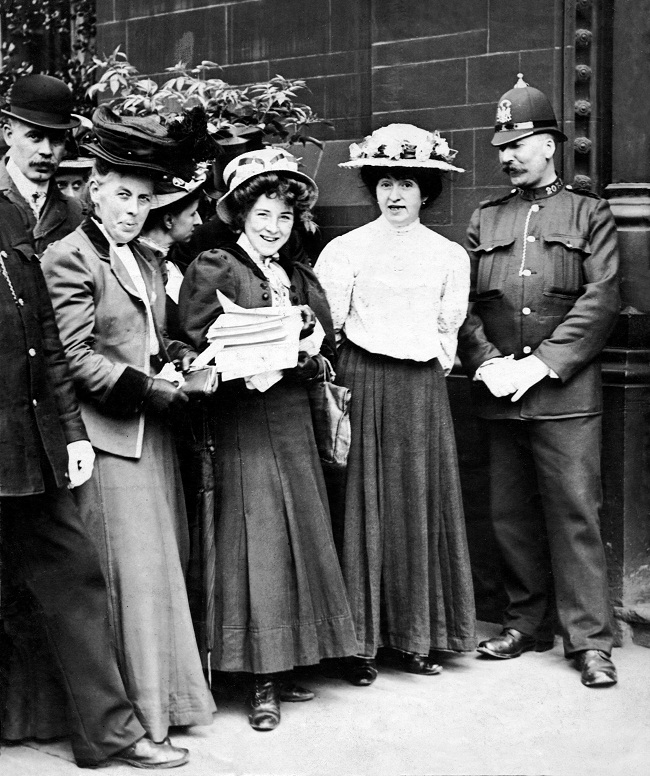 A Petition in support of Votes for Women. Mabel Capper holding Petition. (1910)